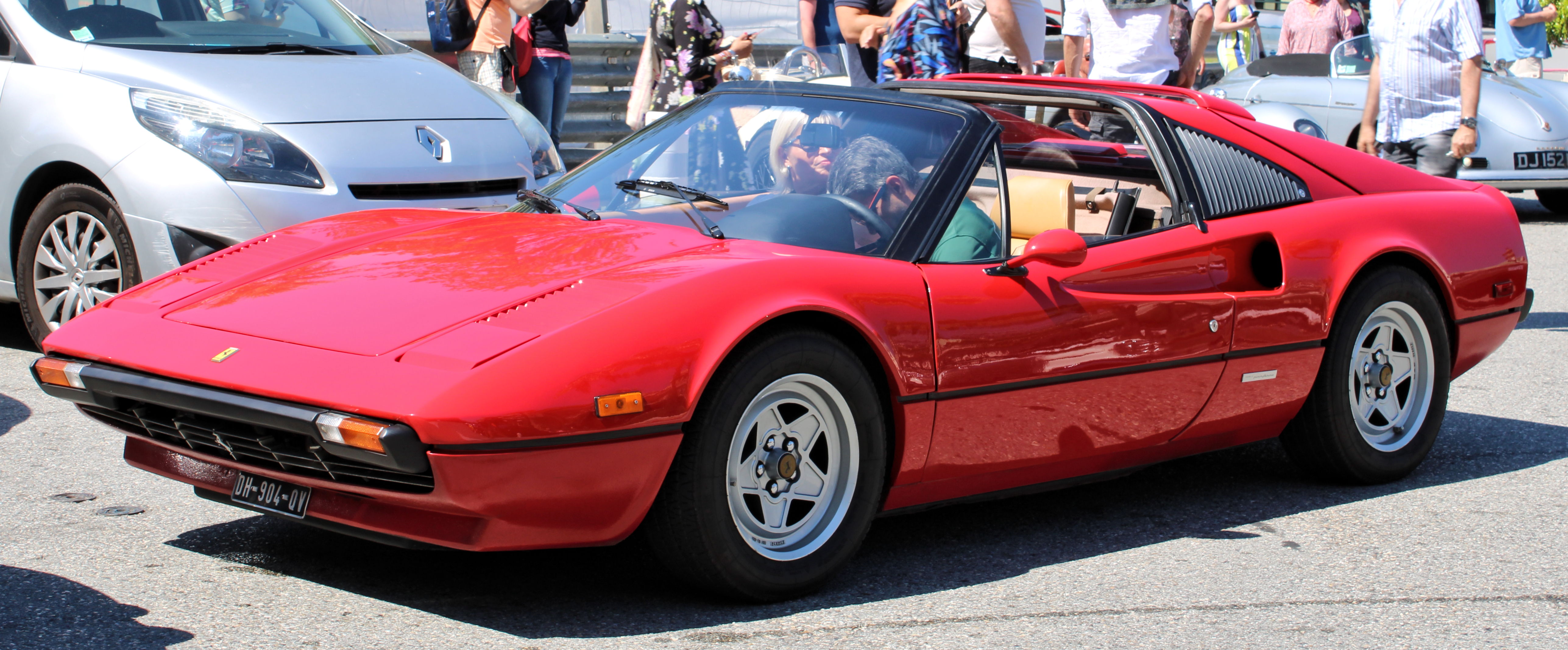 Ferrari 308 GTS in Monaco